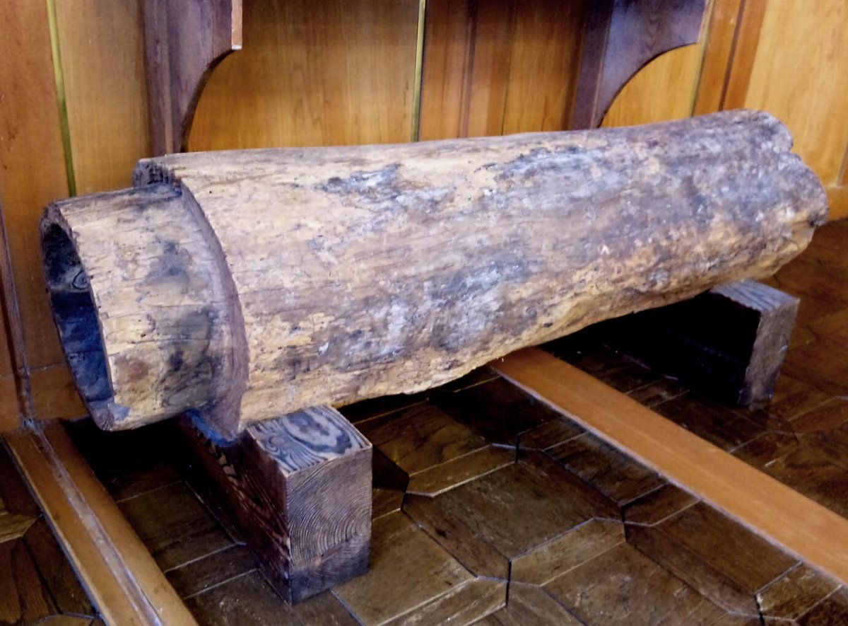 Wooden tube for Unaduki hot spa